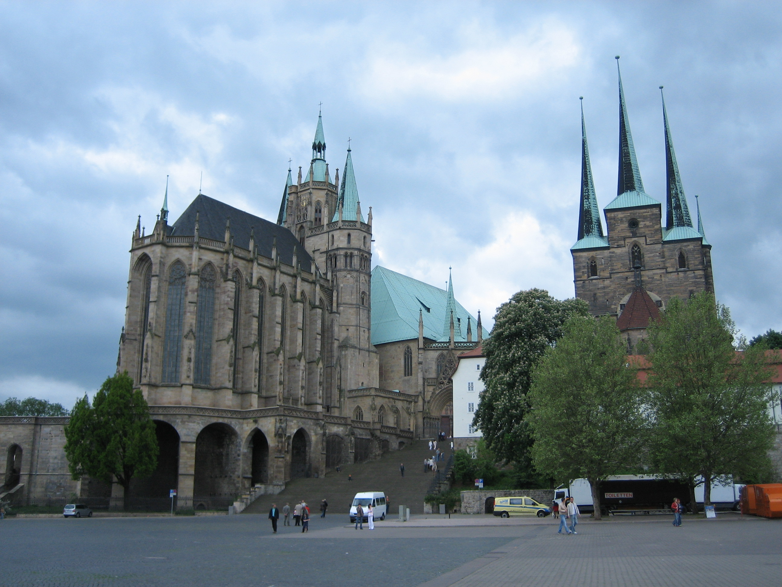 Mariendom and the Severikirche in Erfurt, Germany.